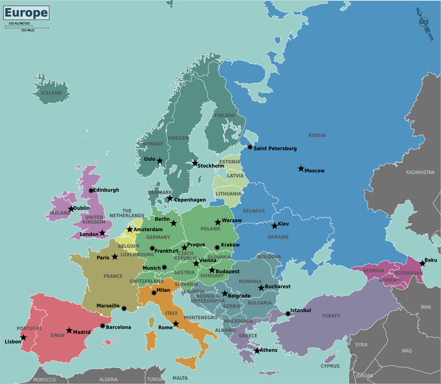 Map of Europe for use on Wikivoyage, English version